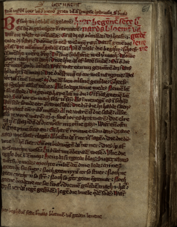 Het handschrift Gent, Universiteitsbibliotheek, 1374; een van onze belangrijkste bronnen voor de Vierde Partie